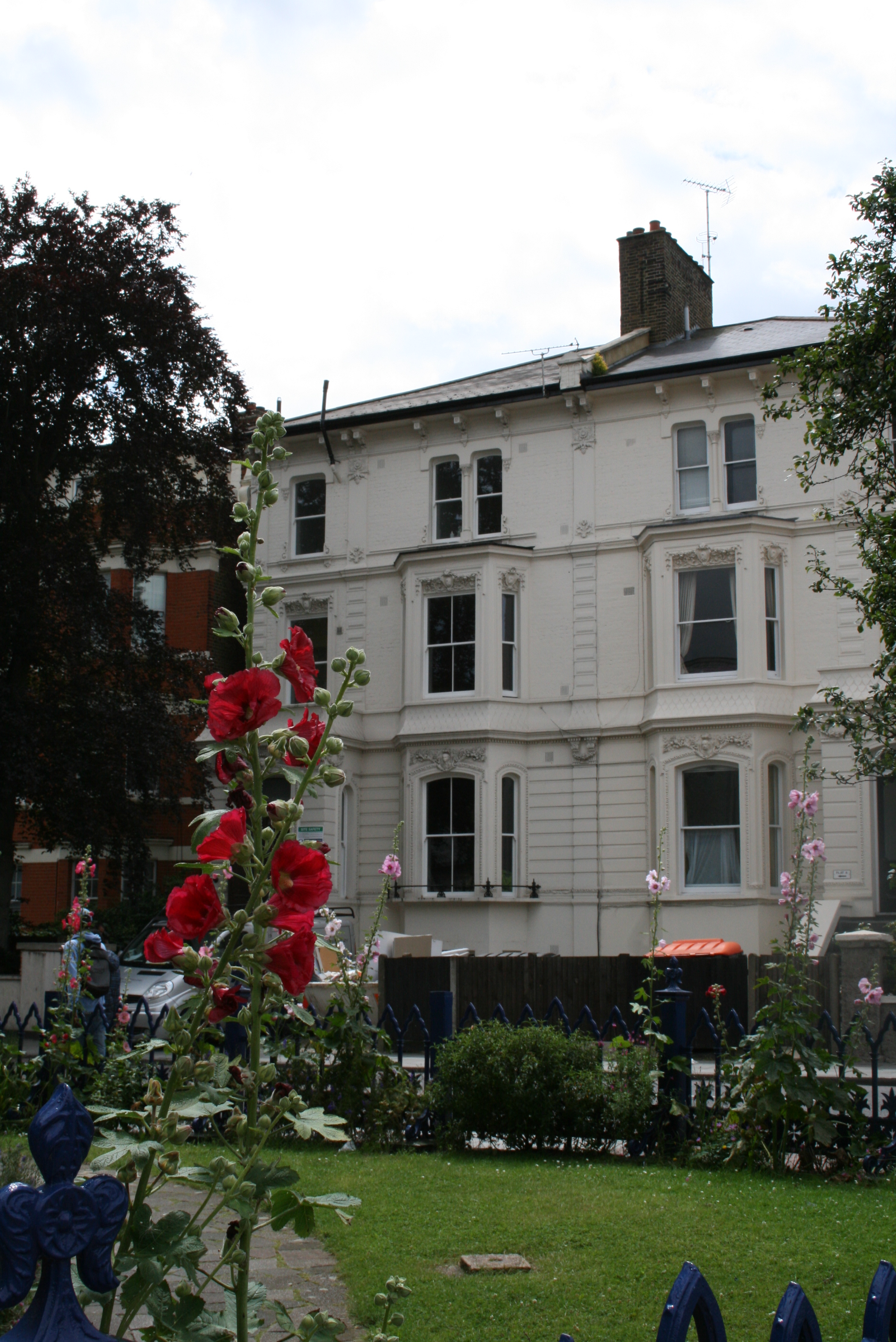 The new property of The Society for the Relief of the Homeless Poor in Tooting Bec, London.